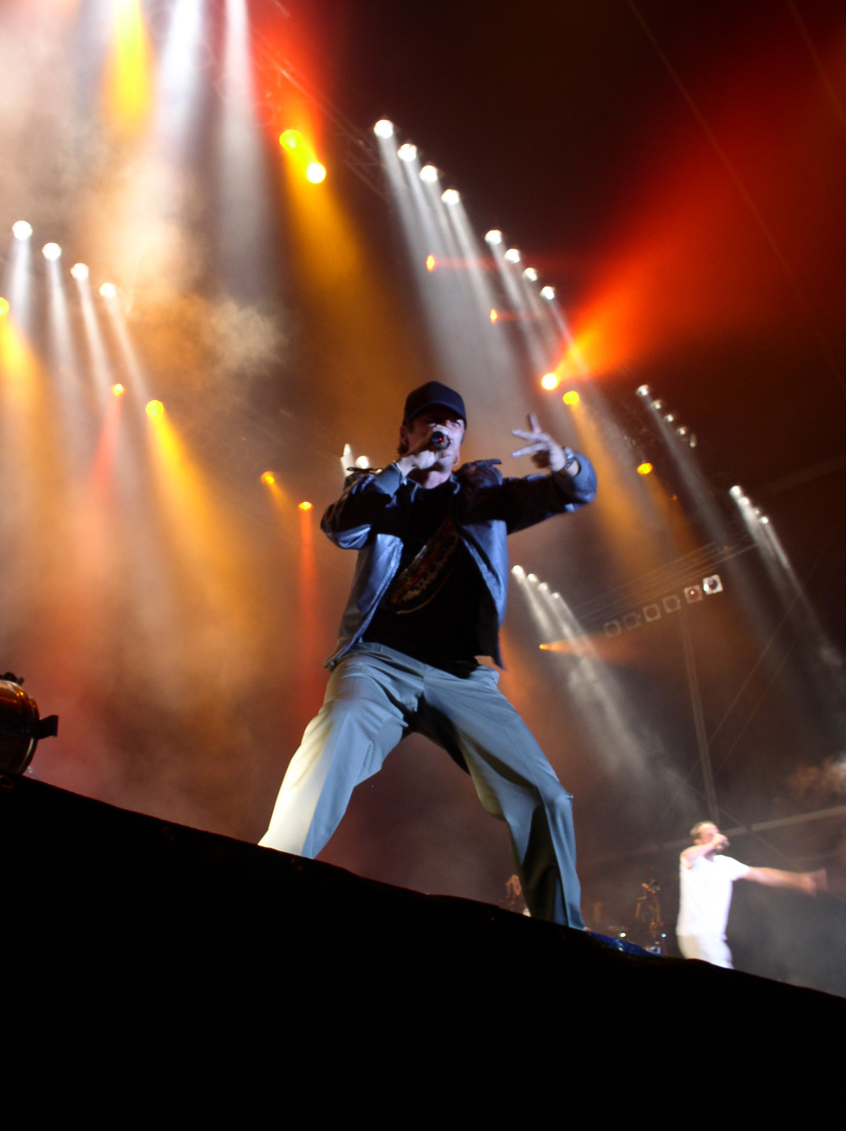 The singer "Dee Jot Hausmarke" of the bad Fantastischen Vier at Berlin 05 festival